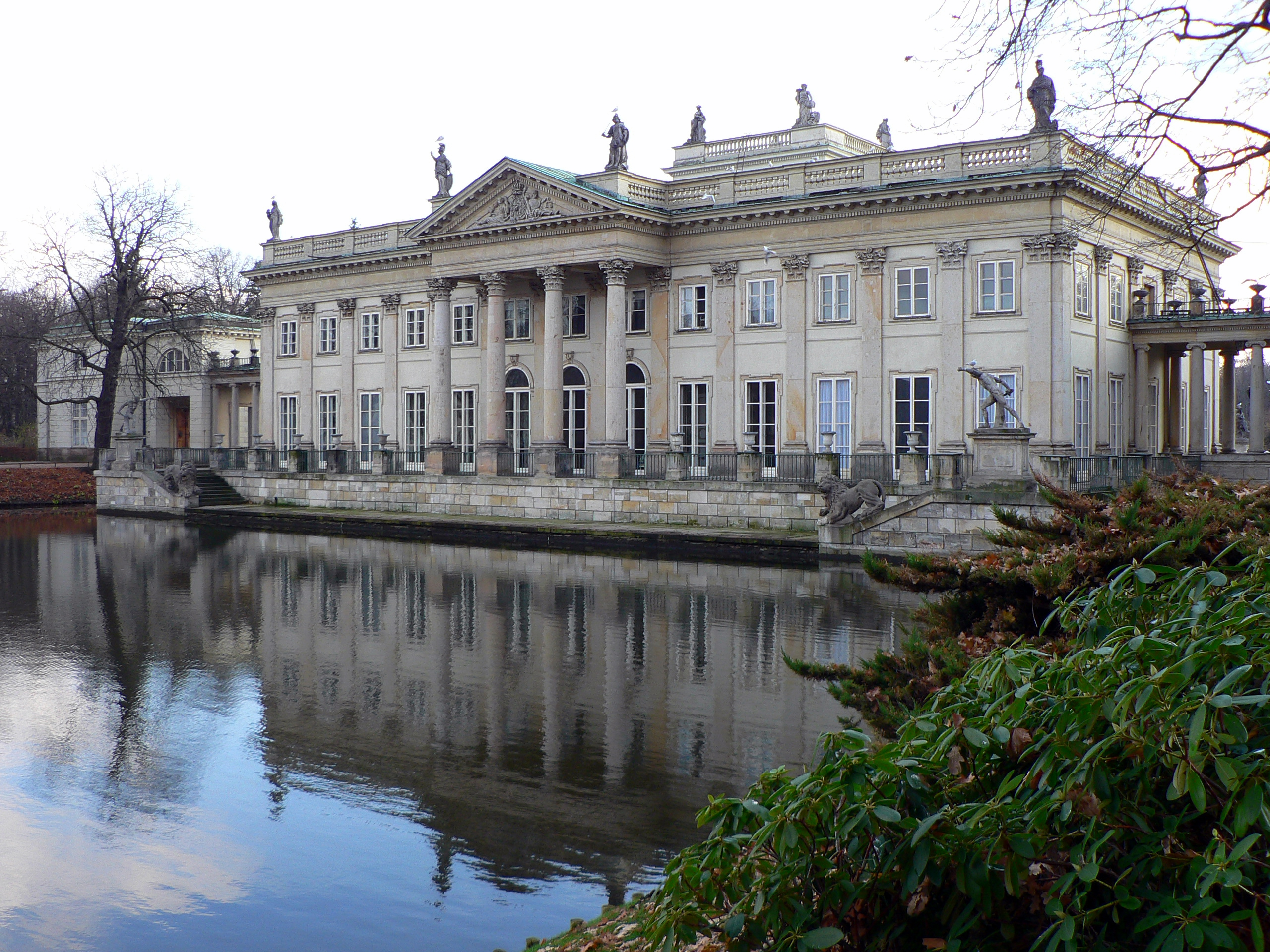 Łazienki Palace, Warsaw, Poland